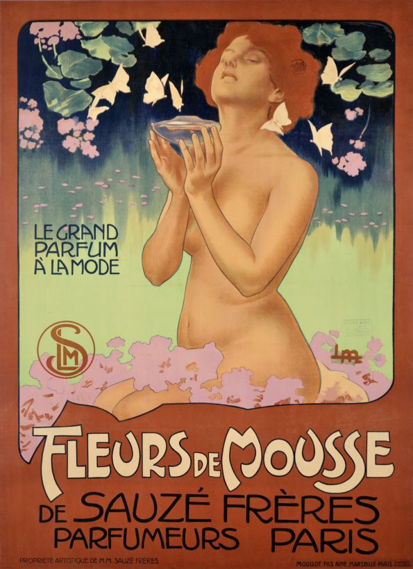 Poster by Leopoldo Metlicovitz.